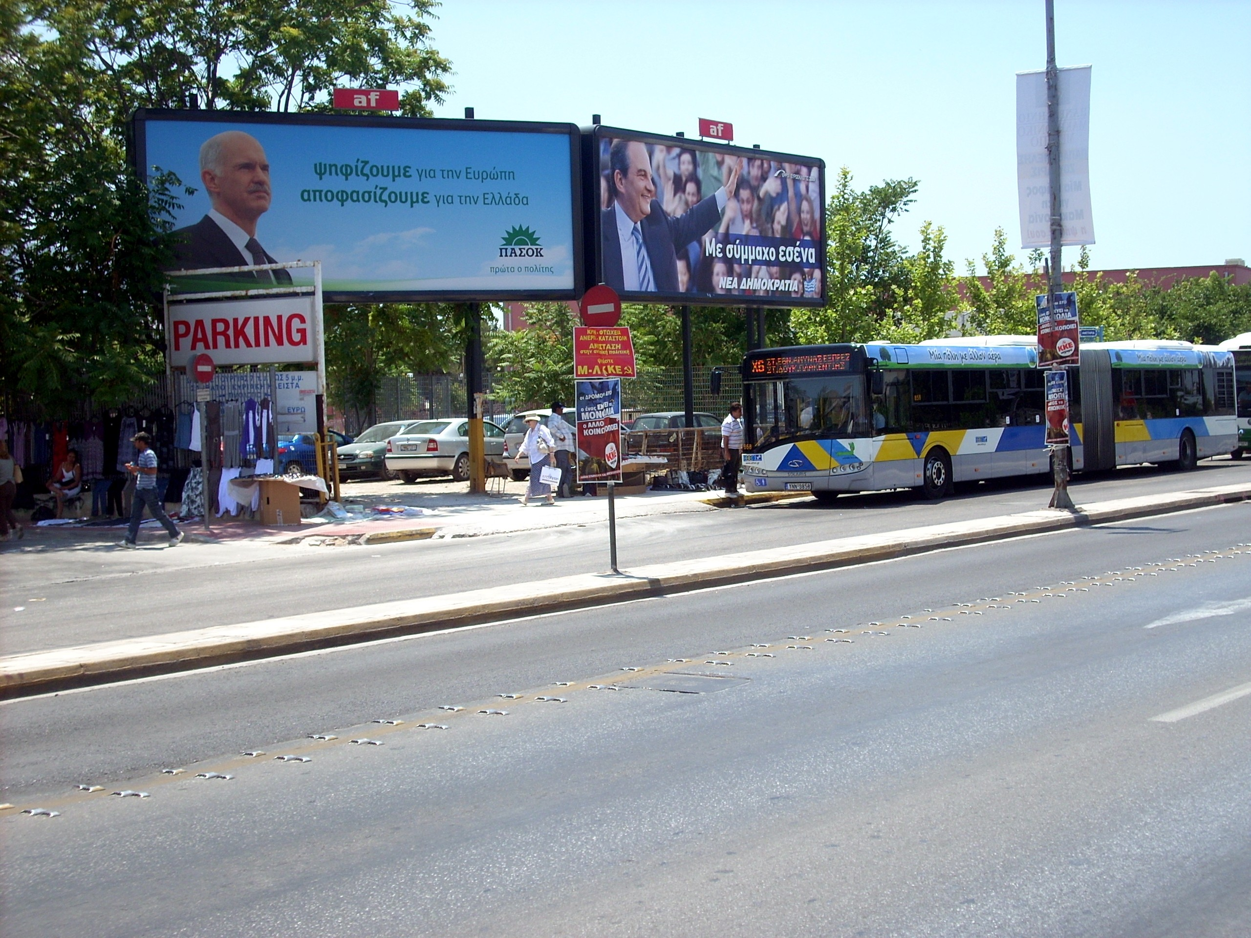 Bus stop (line X6) near Ethniki Amina metro station. Mezogion Street in Athens before the European Parliament election in Greece 2009. Polish bus Solaris Urbino 18 Mk3 (#858, reg. YNN 9858), built 2009, ΕΘΕΛ Άγιος Ιωάννης Ρέντης (Agios Ioannis Rentis) operator.